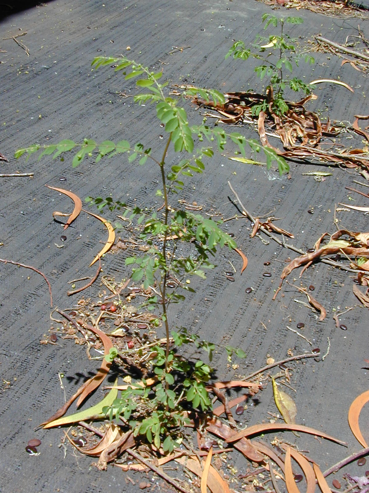 Phyllanthus tenellus (habit). Location: Maui, Makawao